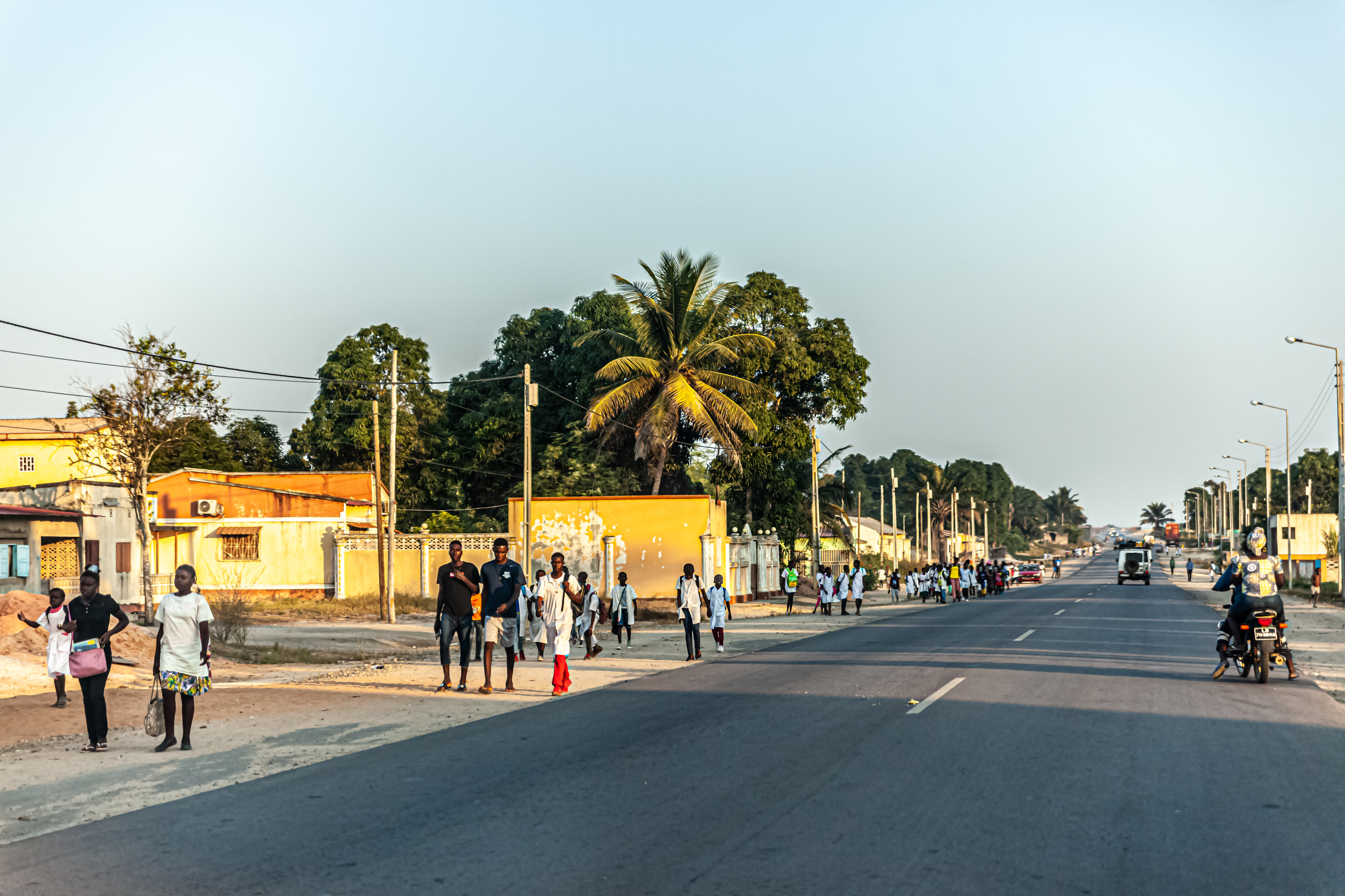 There is two sessions of school in Angola. these kids are going home after the second session This is an image with the theme "Africa on the Move or Transport" from: Angola